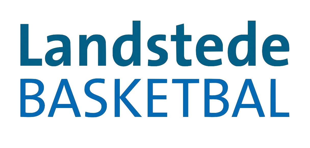 Logo of Landstede Basketbal, a professional team from Zwolle, the Netherlands.